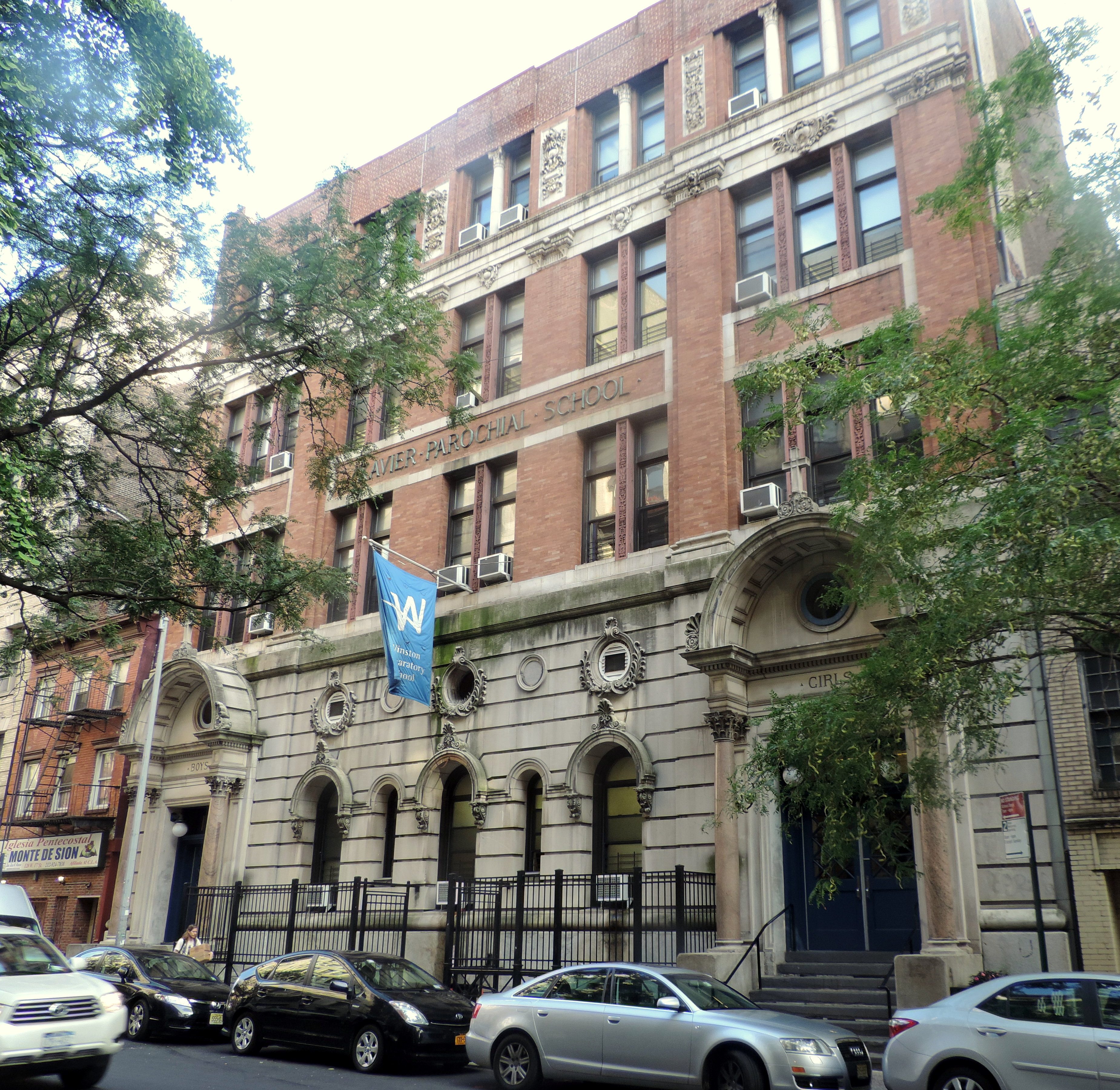 Looking south across 17th Street at Winston Prep, formerly a Catholic school.